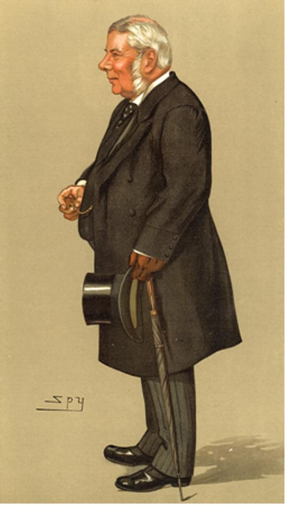 Baron Macnaghten - "He Succeeded Lord Blackburn" - Spy - October 31, 1895